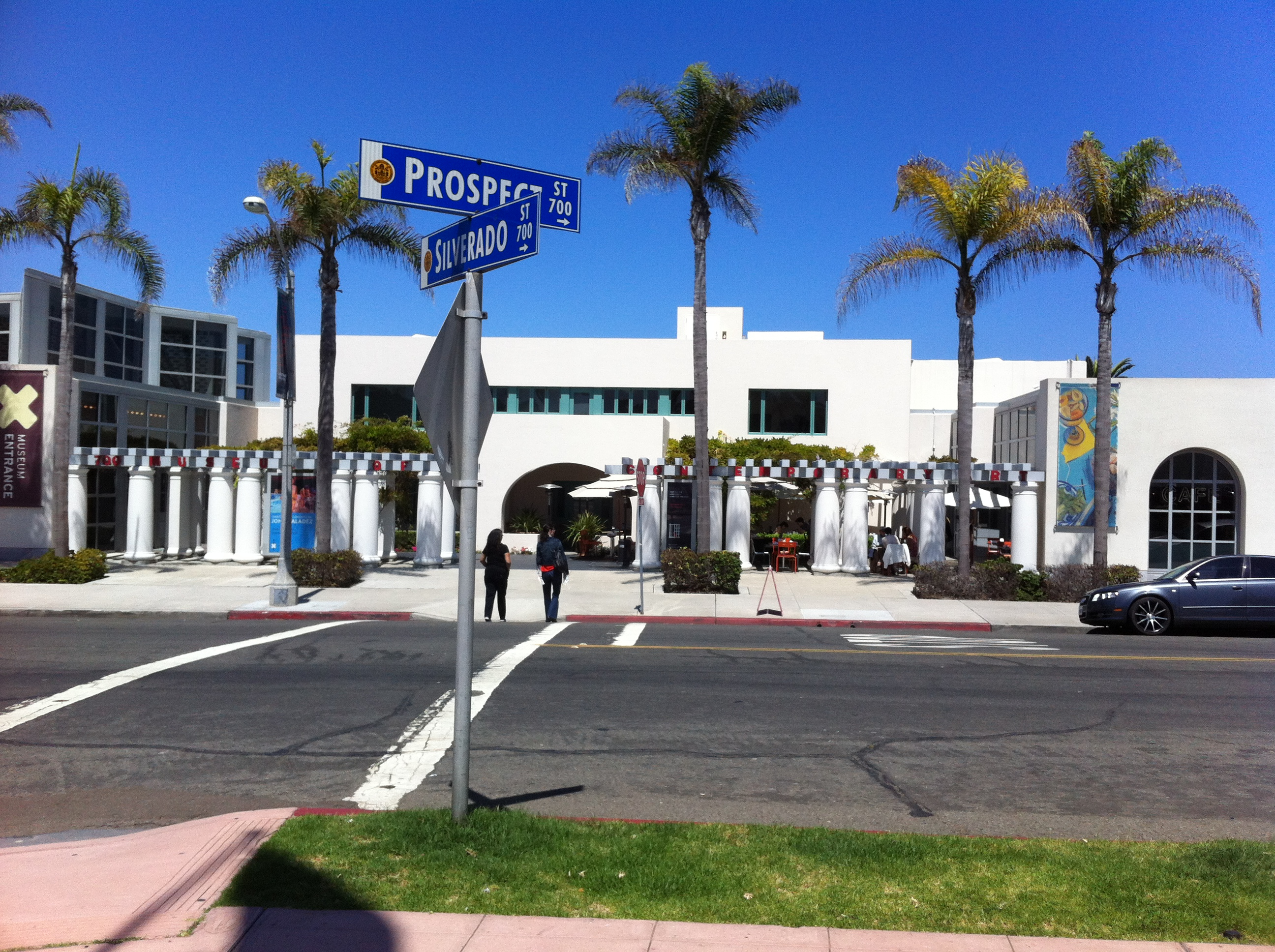 2012 photograph of The Museum of Contemporary Art, San Diego, in La Jolla